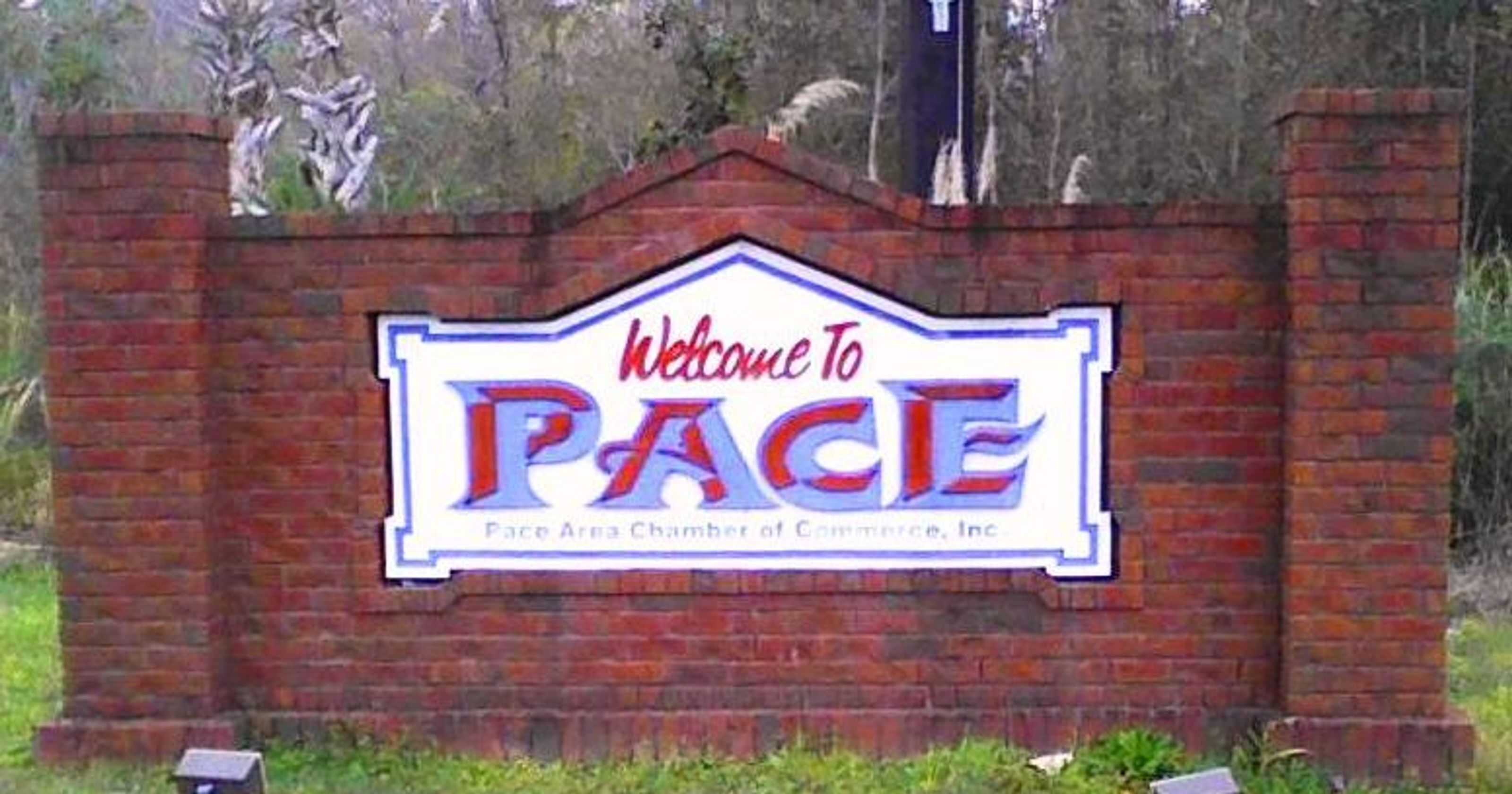 Image of the old welcome sign of Pace, Florida.